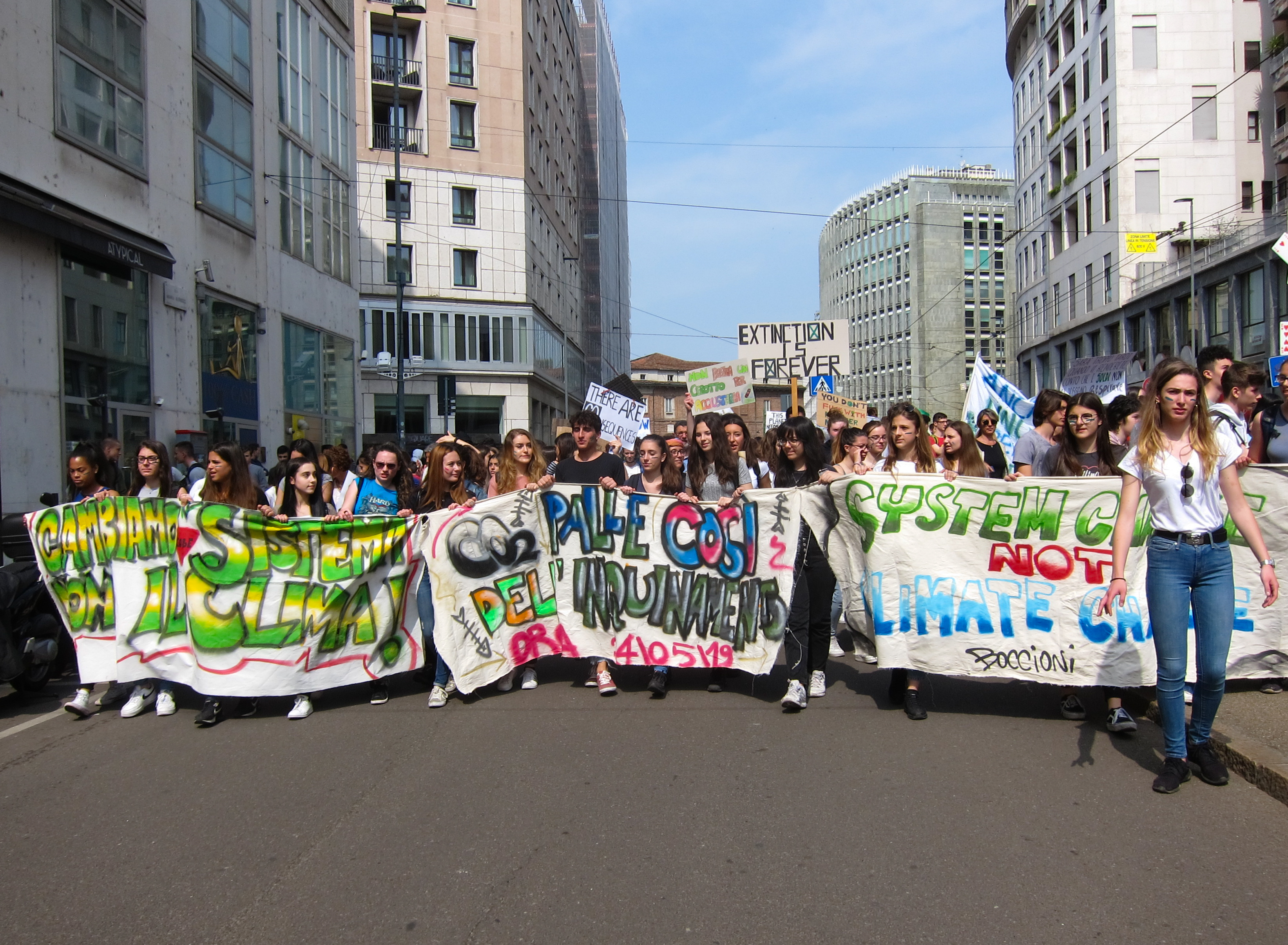 Students marching in the streets and holding banners for climate. The authors of the banners are unknown but were spotted at the public student march in Milan. School strikes for climate took place at the Fridays For Future event in Milan, Italy on the 24th of May in 2019. 2019-05-24